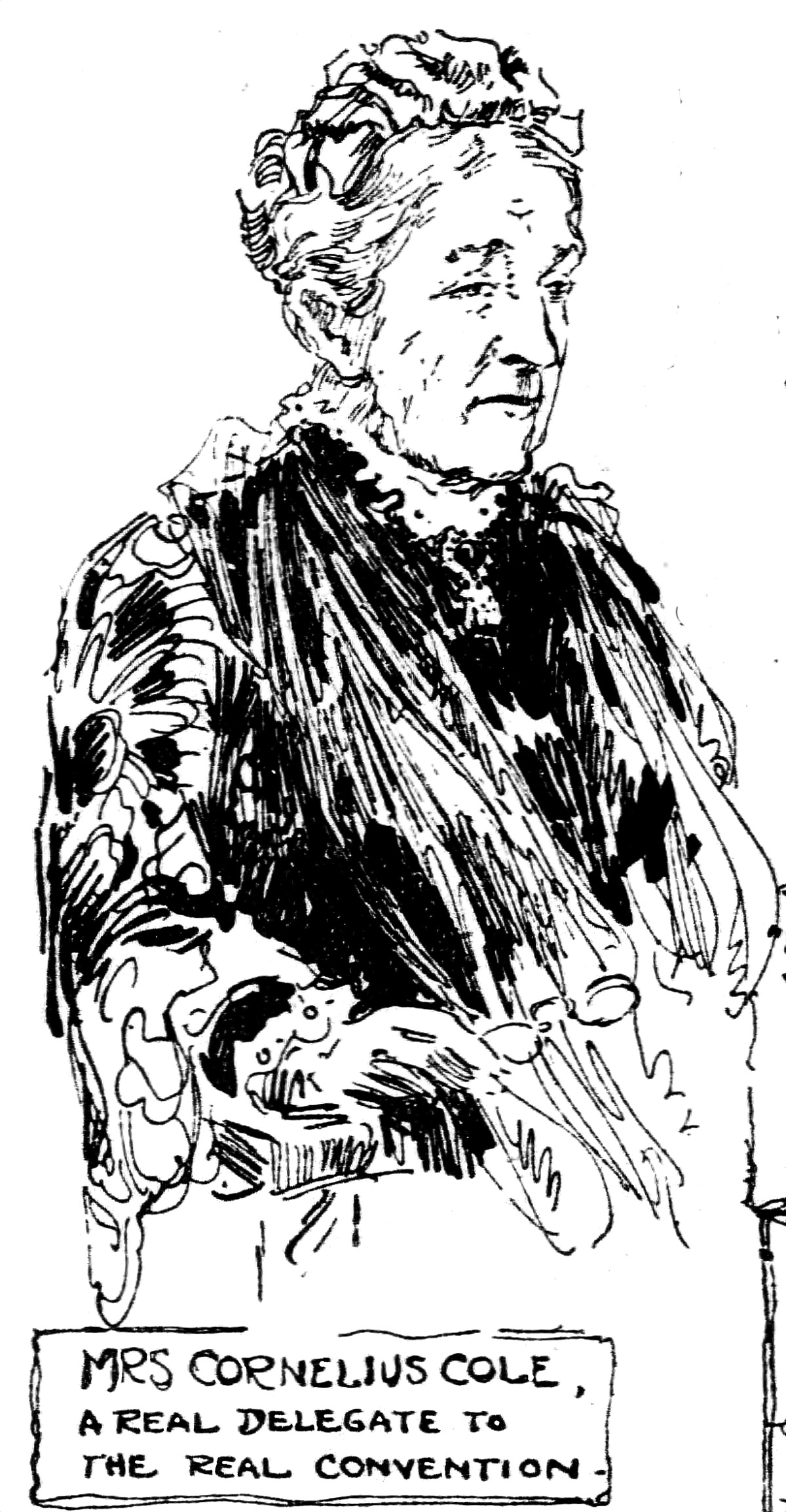 Drawing of 1916 Republican National Convention Delegate Mrs. Cornelius Cole